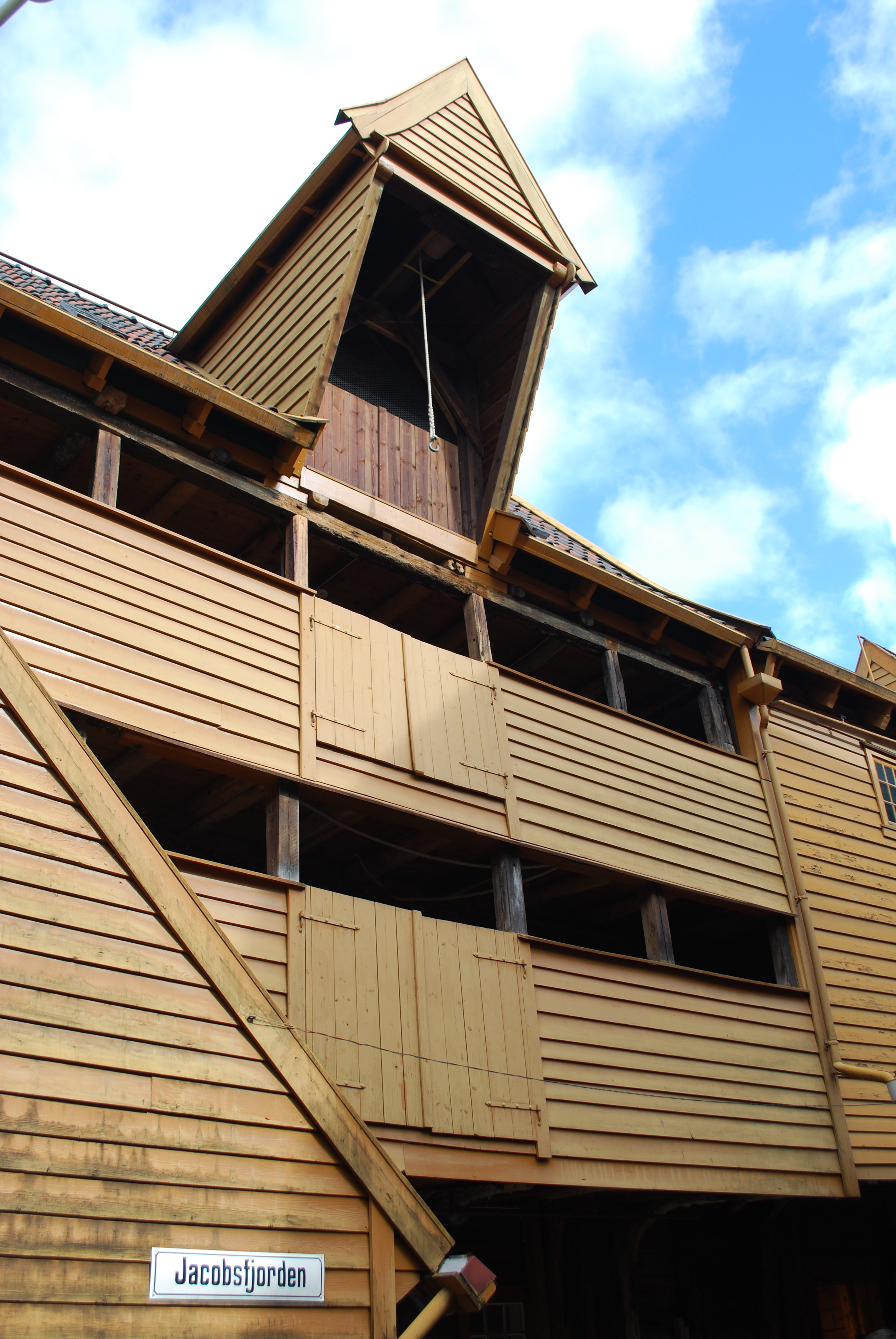 Building on Jacobsfjorden street inside Bergen's Bryggen